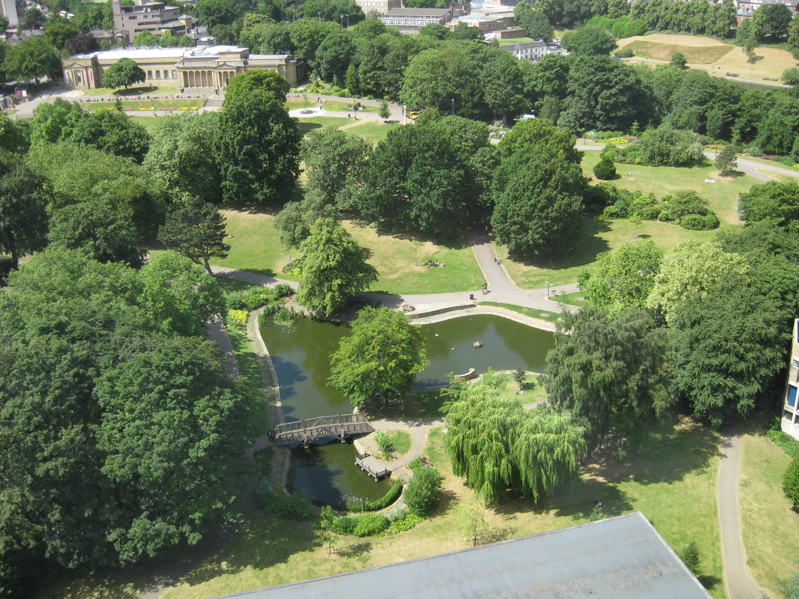 A view of Weston Park, Sheffield, from the Arts Tower (which is just outside the Park) of the University of Sheffield. The duck pond is at the bottom of the picture, Weston Park Museum at the top.